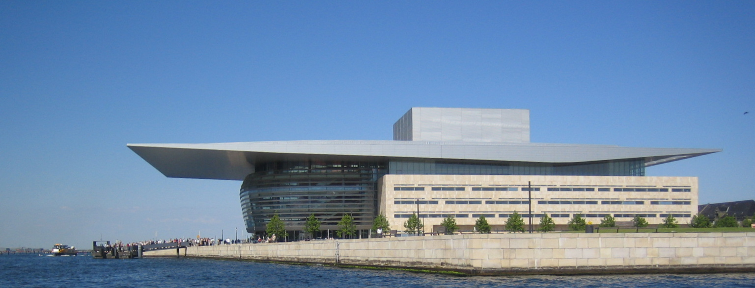 Photograph of The Copenhagen Opera House taken from a boat between Christians Holm and Dokøen